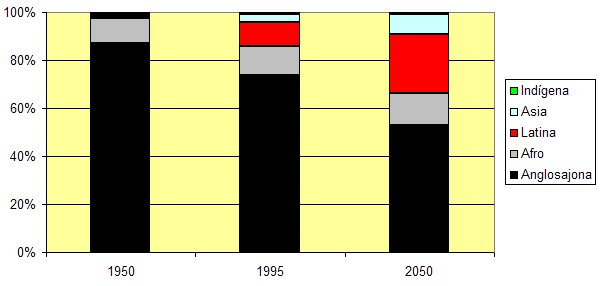 Relative ethnic demographics of the United States over time